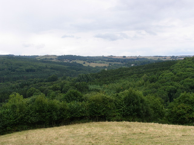 Lineover Woods. This view just above Lineover Woods shows how well wooded the hill surrounding the A40 here are. Lineover Wood is in the foreground, Dowdeswell Woods in the background on the left of the picture.